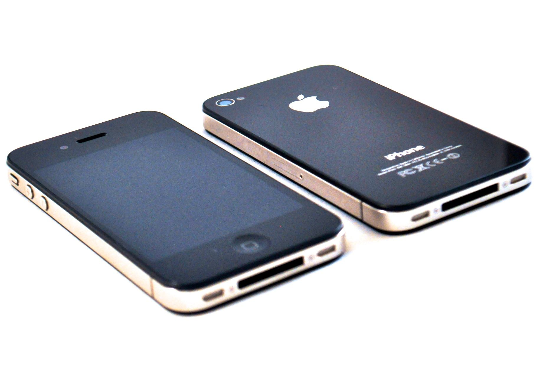 Photograph of two 32GB Black iPhone 4s. The phone on the left shows the front, while the phone on the right shows the back side.